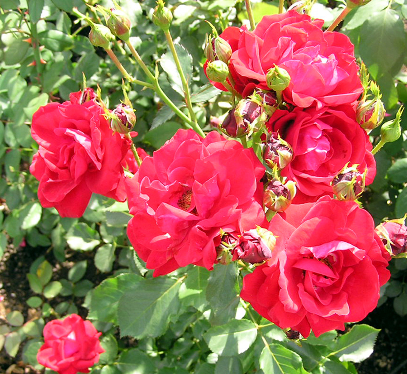 Description: Rose 'Konita' (syn. 'Corona', 'Korona', 'Orange Korona' (Kordes, 1955) Source: Eigene Fotografie Date: 25. Juli 2005 Author: Schubbay